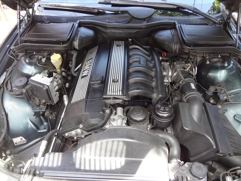 m52 b28